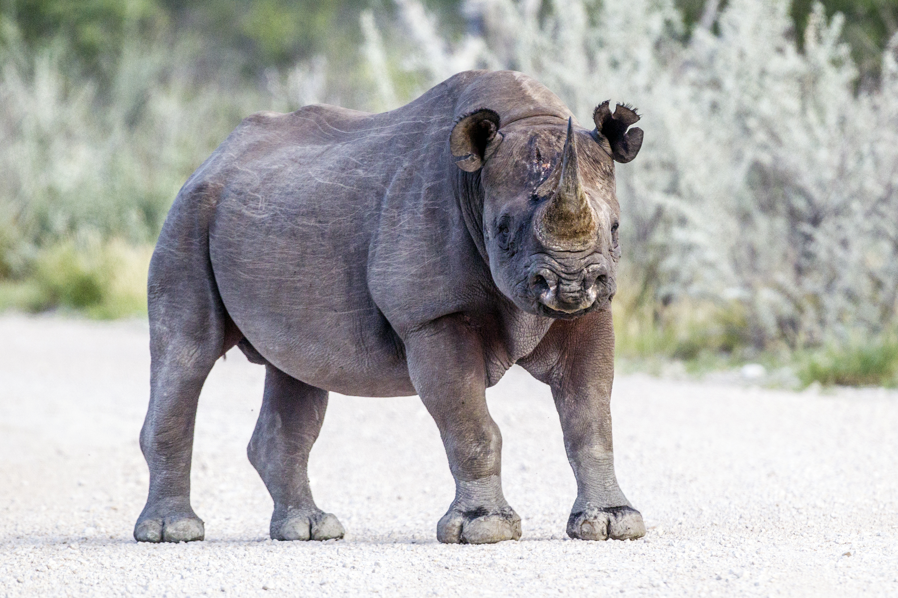 Adult male black rhinoceros